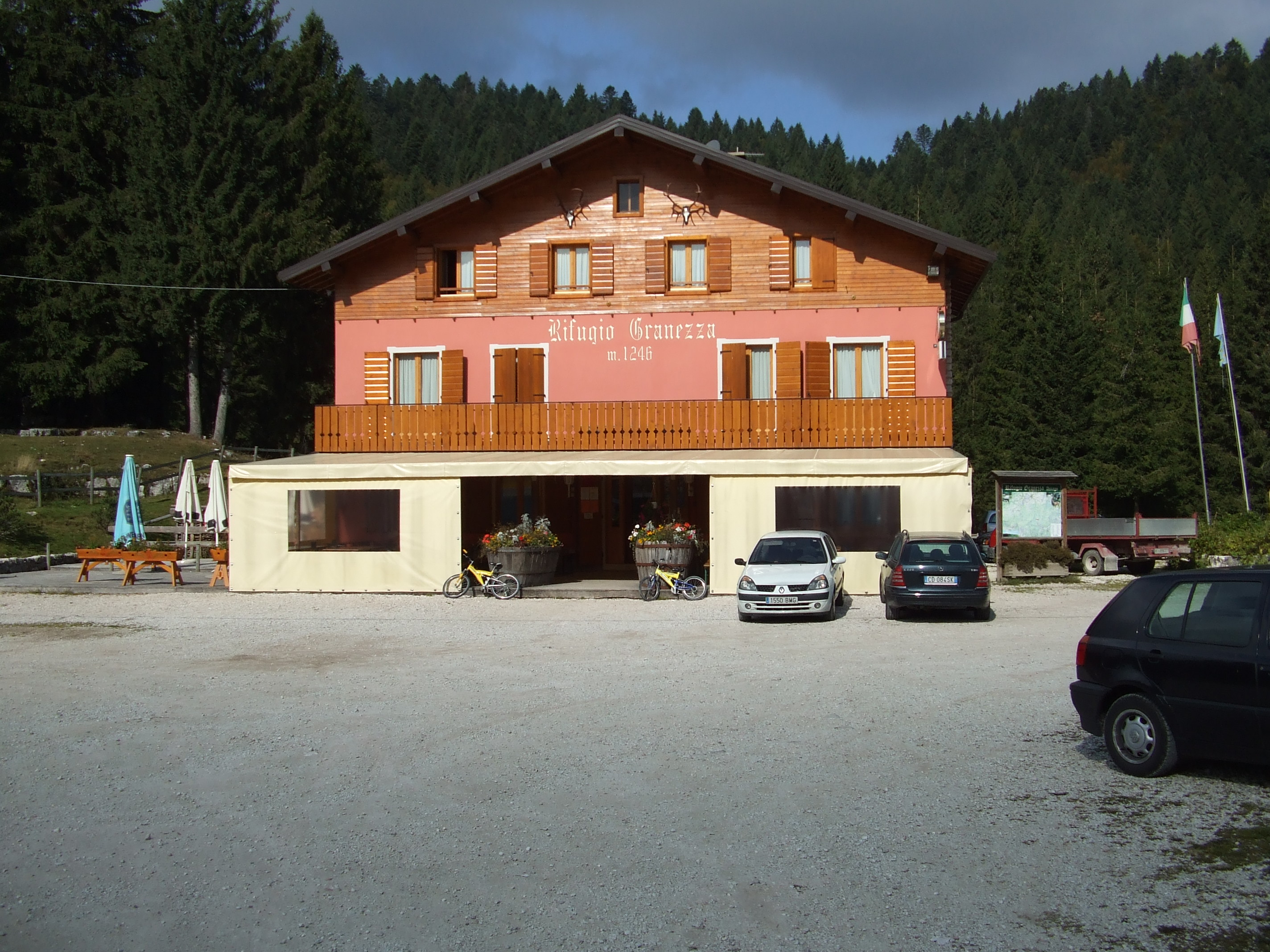 Alpine hut Granezza, Altopiano di Asiago, Veneto, Northern Italy